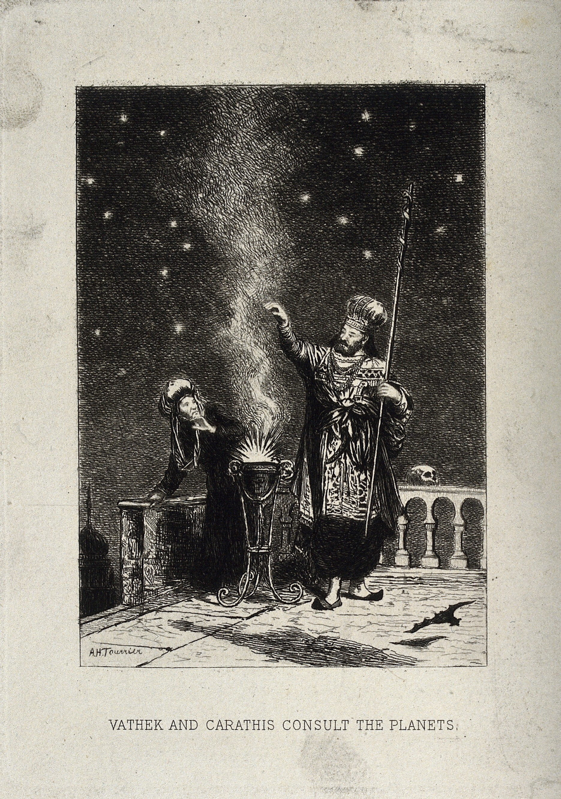 Astrology: Vathek, and his mother Carathis, consult the planets. Etching by A. H. Torriere after W. Beckford. Iconographic Collections Keywords: A. H. Torriere; William Beckford